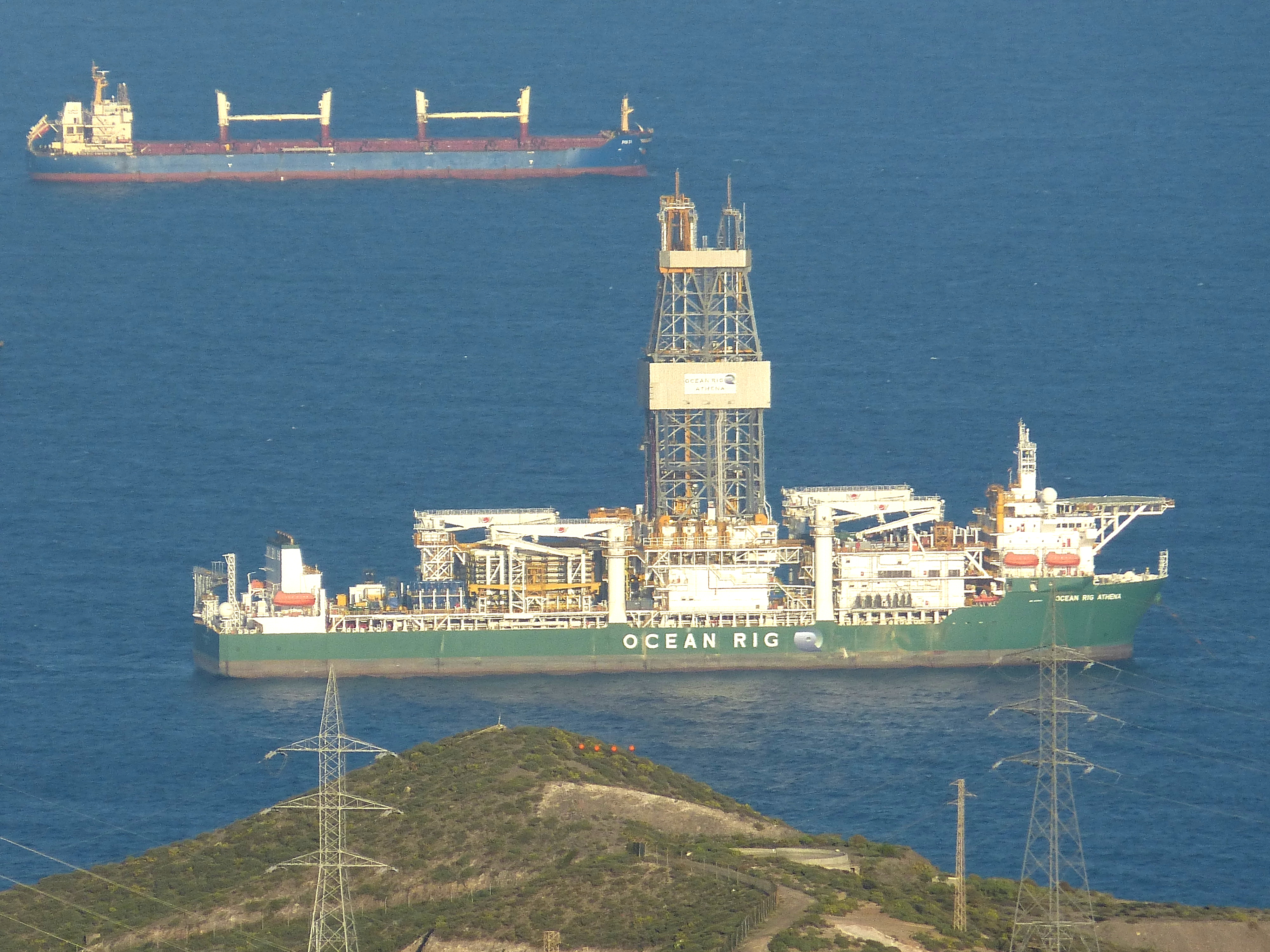 View from Pico de Bandama ( Gran Canaria ) - Ships waiting at the harbour of Las Palmas de Gran Canaria.